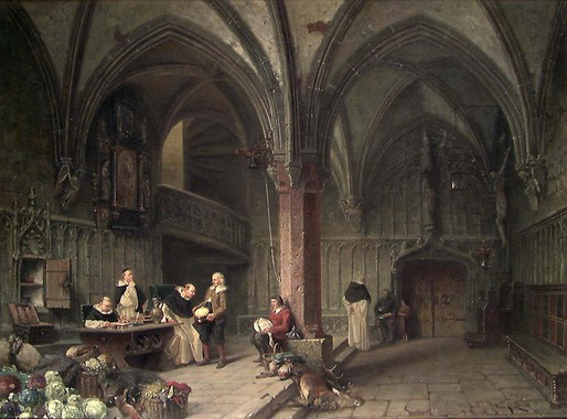 Norwegian: Tiendedag i et dominikanerkloster.Farmers paying their Tithes in a Dominican Conventtitle QS:P1476,no:"Tiendedag i et dominikanerkloster." label QS:Lno,"Tiendedag i et dominikanerkloster." label QS:Len,"Farmers paying their Tithes in a Dominican Convent"